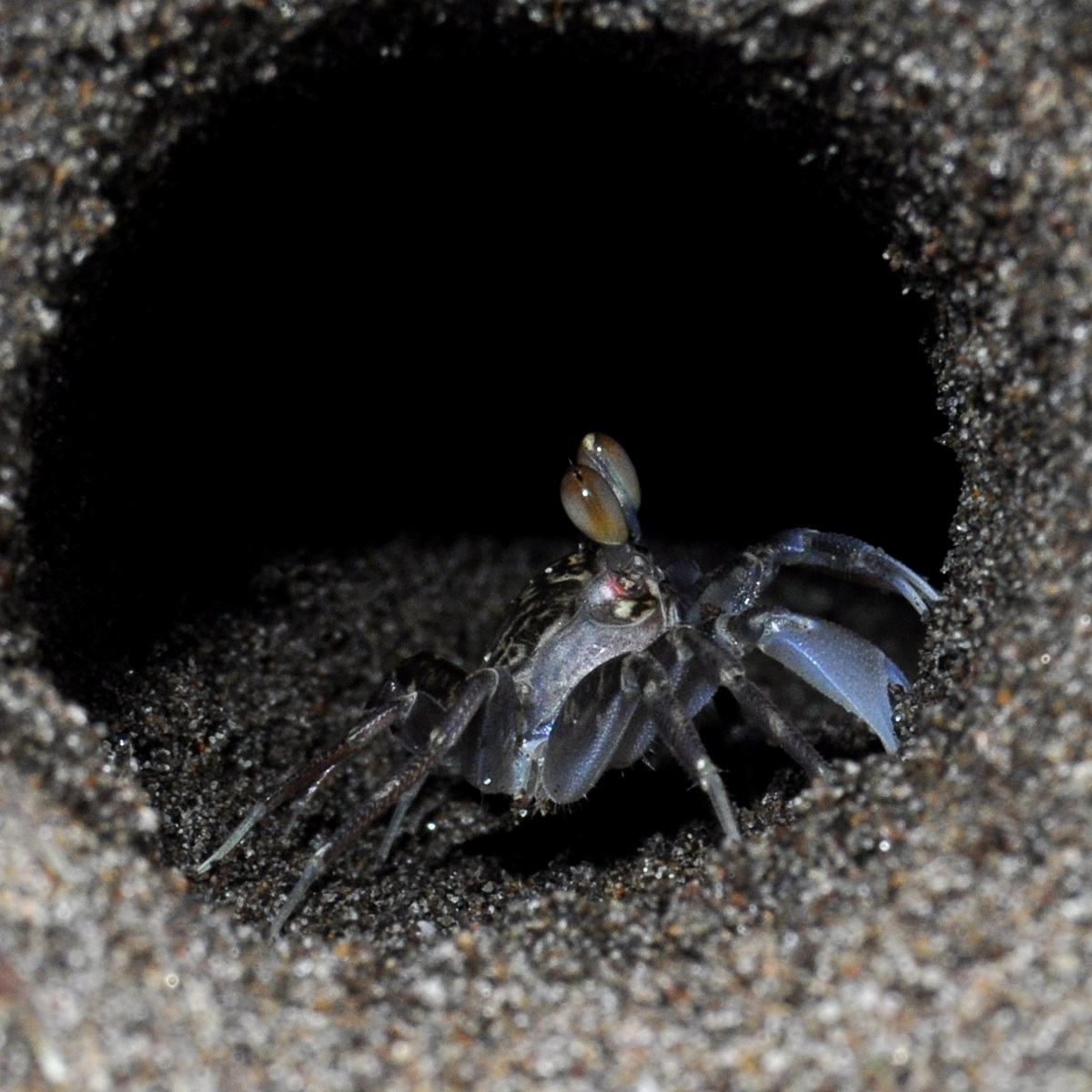 Kuhl's ghost crab, Ocypode kuhlii; not at it's own hole. Palabuhanratu, West Java, Indonesia.